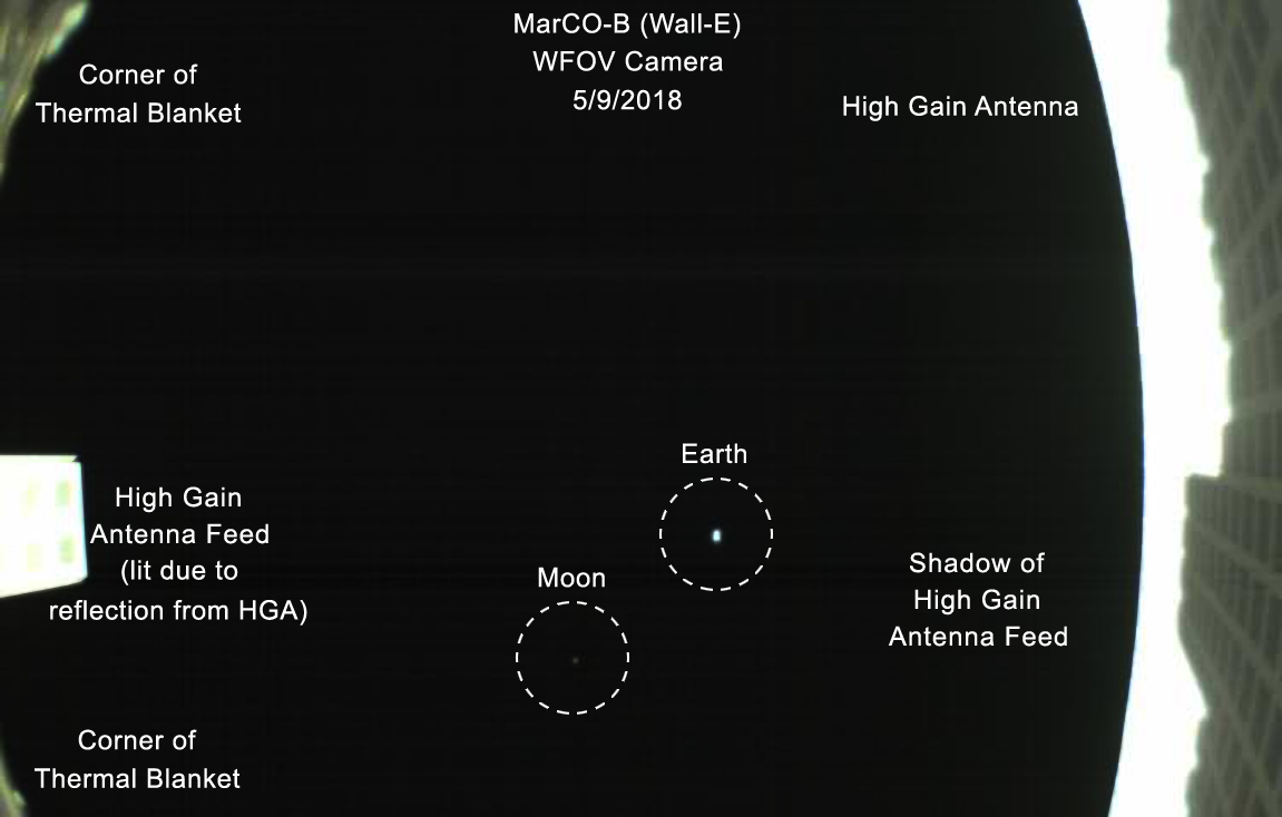 The first image captured by one of NASA's Mars Cube One (MarCO) CubeSats. The image, which shows both the CubeSat's unfolded high-gain antenna at right and the Earth and its moon in the center, was acquired by MarCO-B on May 9. MarCO is a pair of small spacecraft accompanying NASA's InSight (Interior Investigations Using Seismic Investigations, Geodesy and Heat Transport) lander. Together, MarCO-A and MarCO-B are the first CubeSats ever sent to deep space. InSight is the first mission to ever explore Mars' deep interior. If the MarCO CubeSats make the entire journey to Mars, they will attempt to relay data about InSight back to Earth as the lander enters the Martian atmosphere and lands. MarCO will not collect any science, but are intended purely as a technology demonstration. They could serve as a pathfinder for future CubeSat missions. The MarCO and InSight projects are managed for NASA's Science Mission Directorate, Washington, by JPL, a division of the California Institute of Technology, Pasadena.